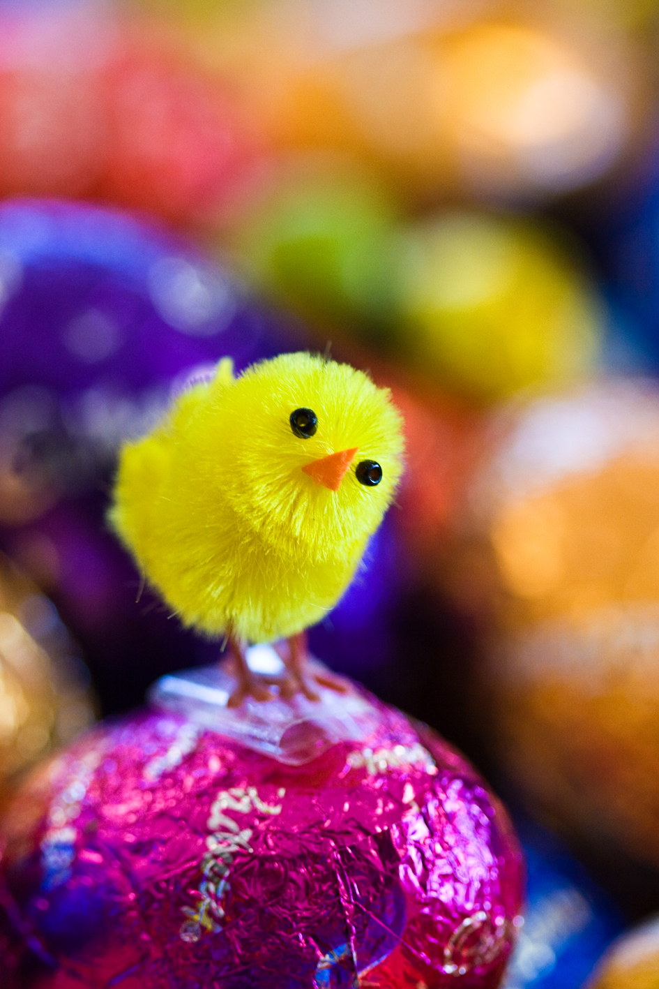 Finally finished my Easter egg shopping